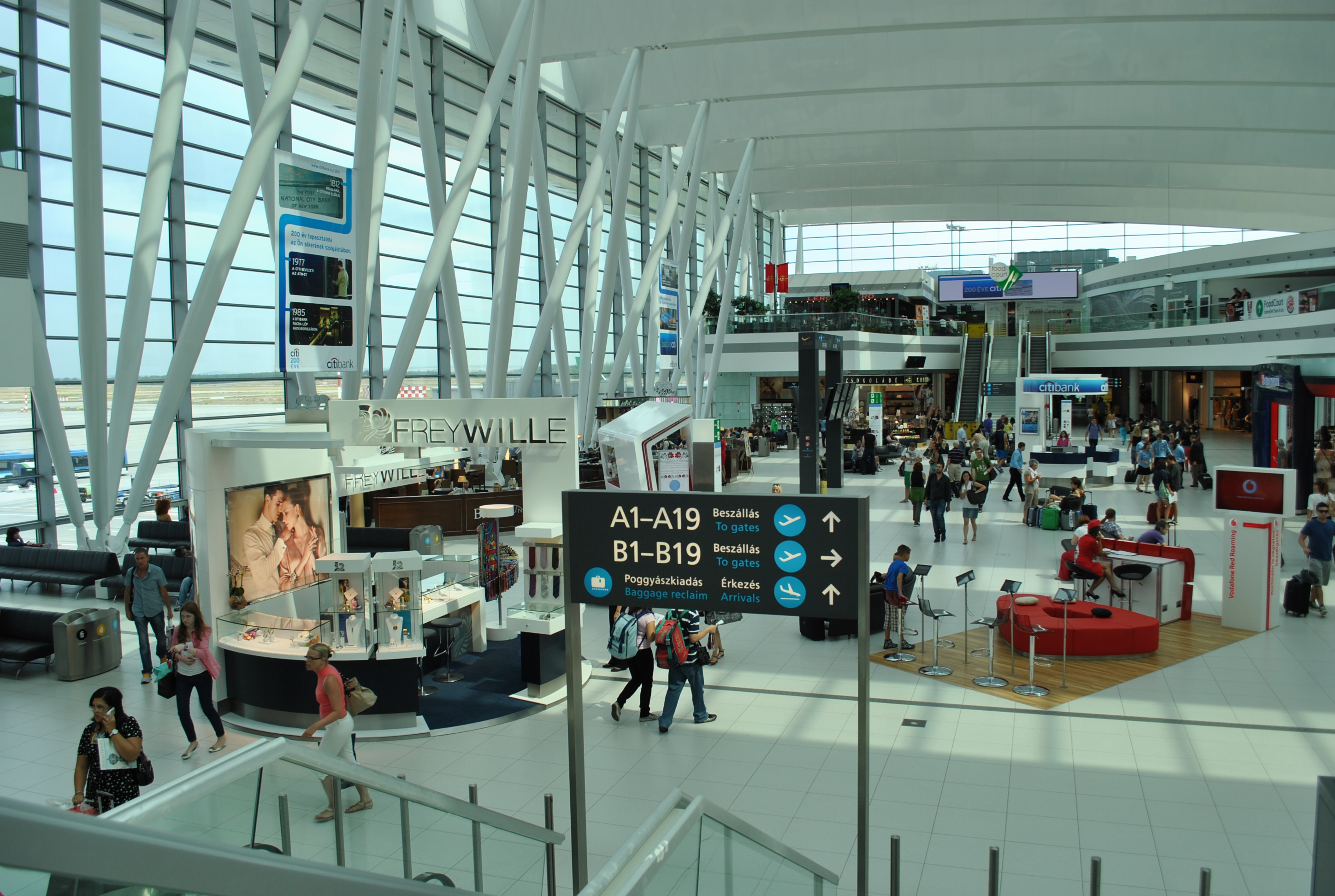 Budapest Liszt Ferenc International Airport inside of SkyCourt